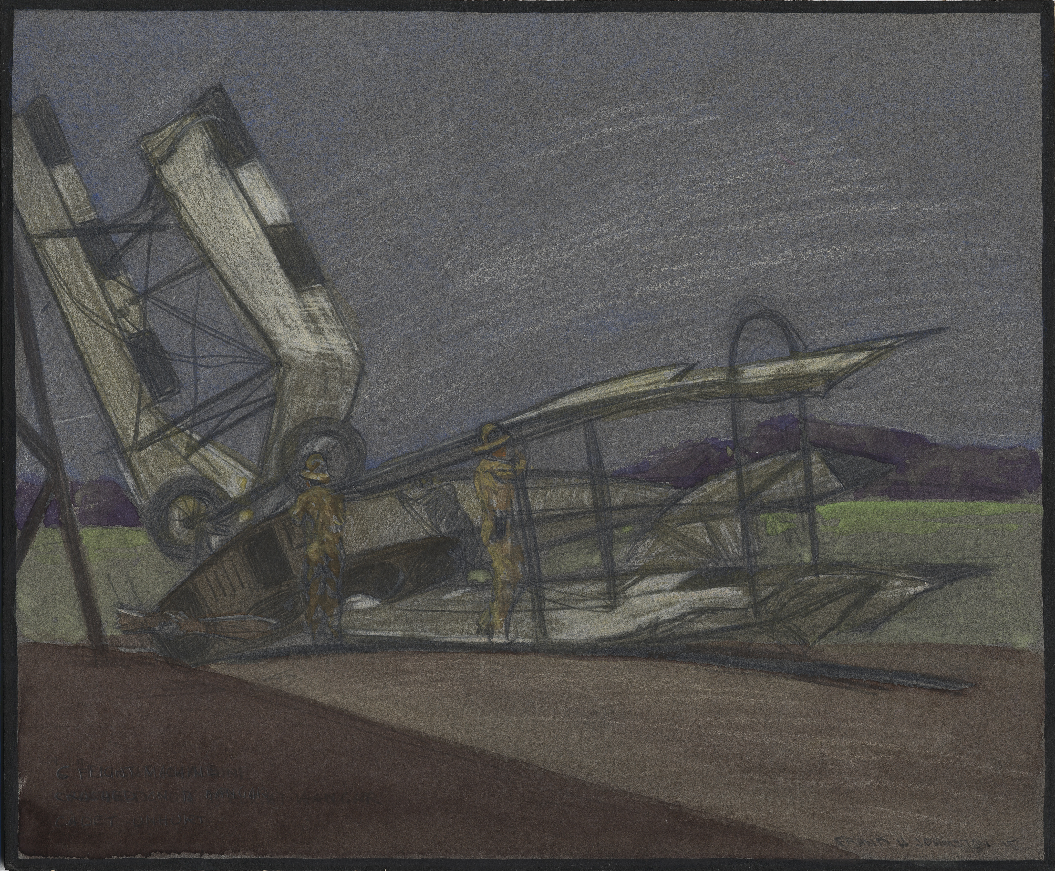 This crashed Curtis JN-4 aircraft illustrates the danger of pilot training. Aircraft were flimsy and unreliable, but, without aircraft simulators, were the only tools available to learn how to fly.